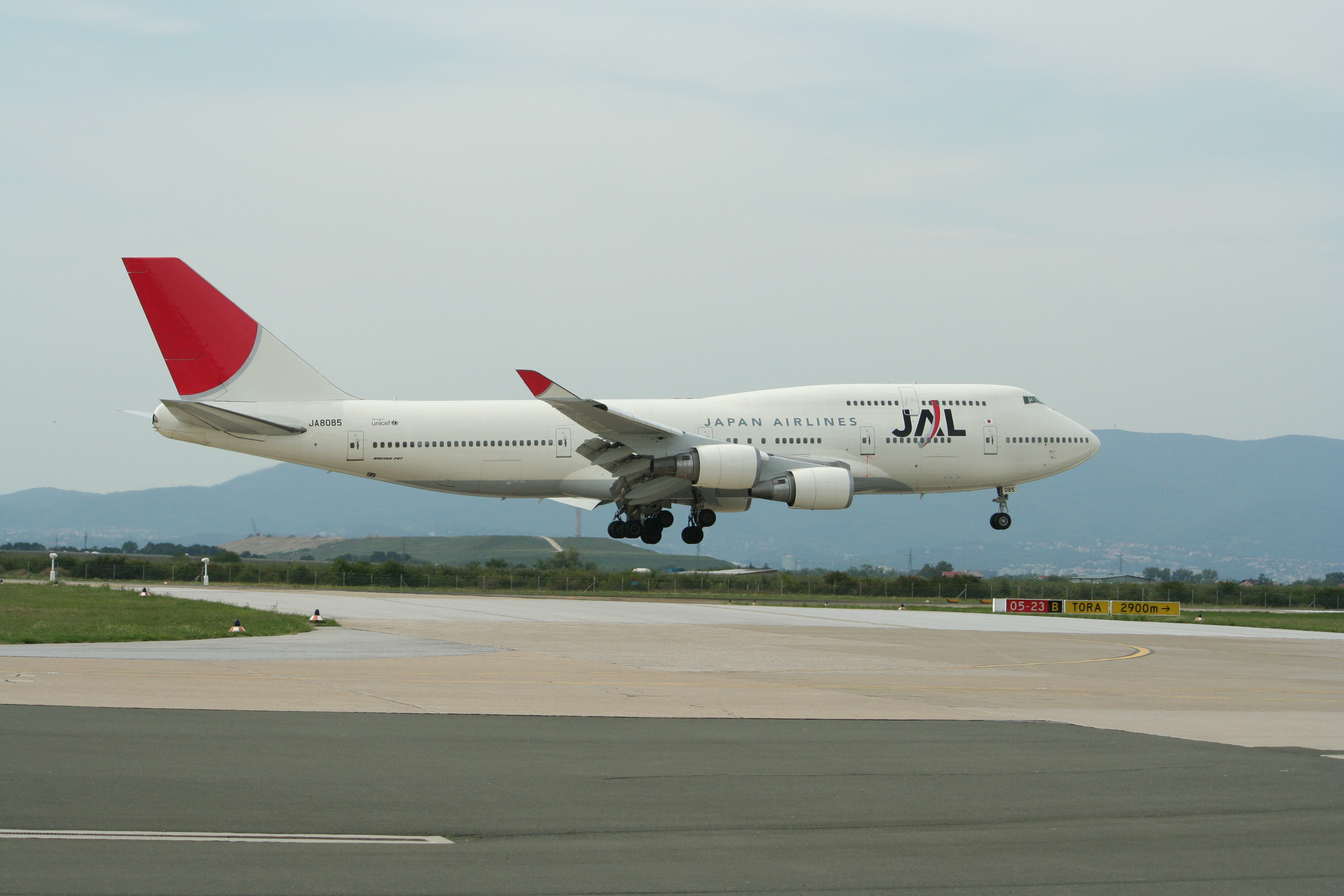 JAL with Boeing 747-400 landing on Zagreb Airport